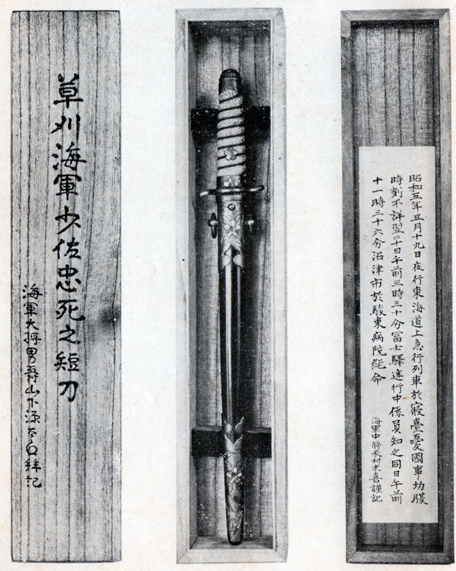 the dagger of lieutenant commander,kusakari Eiji